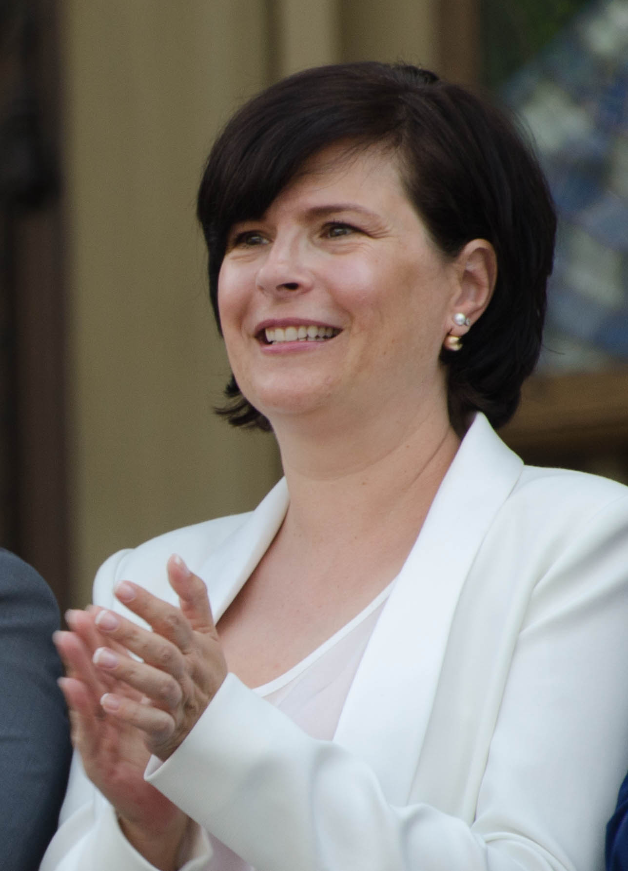 Karen McPherson at the 2015 Alberta Premier/Cabinet swearing-in ceremony, by Connor Mah.